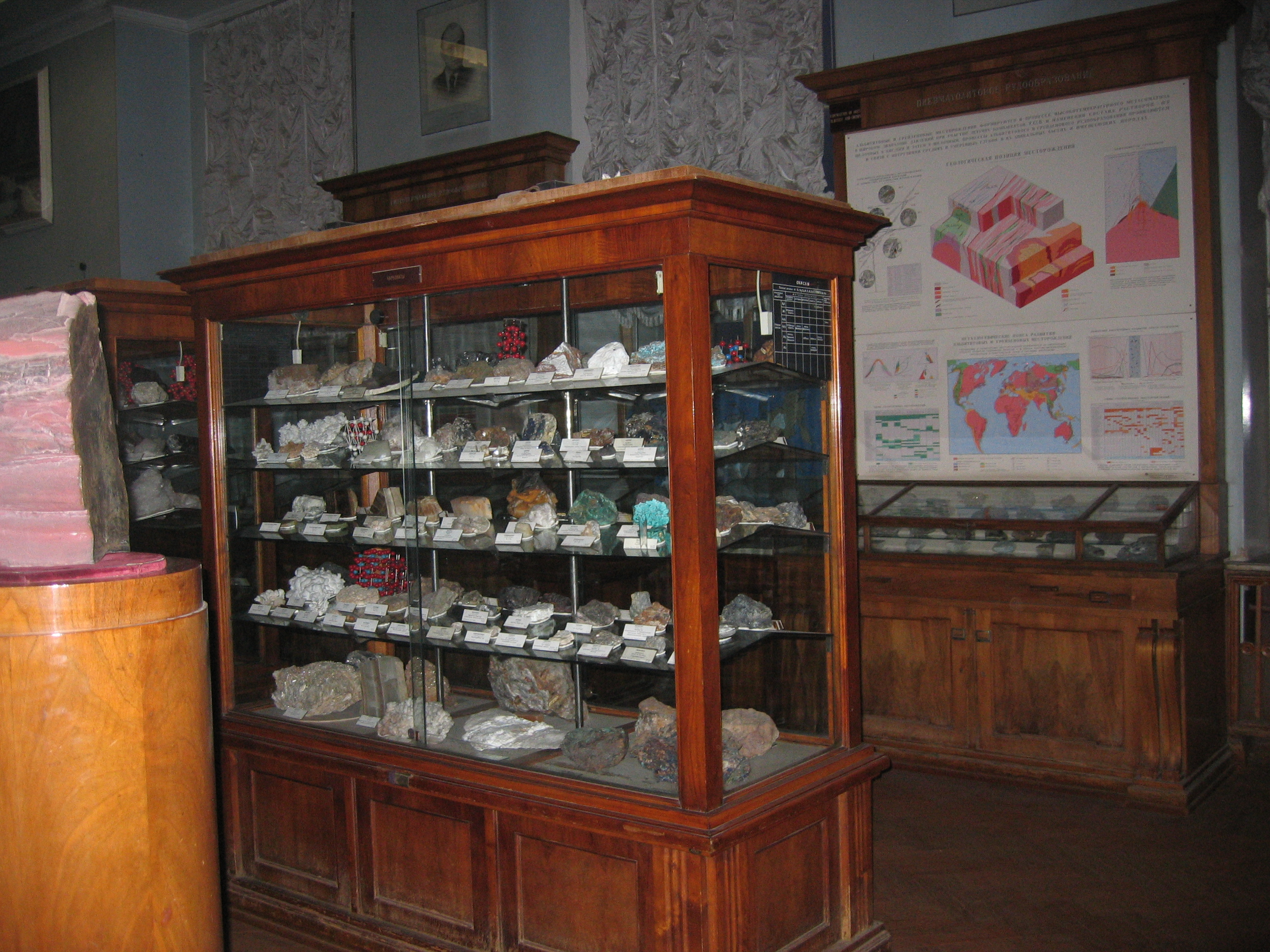 The main building of Moscow State University. Views from outside and from inside